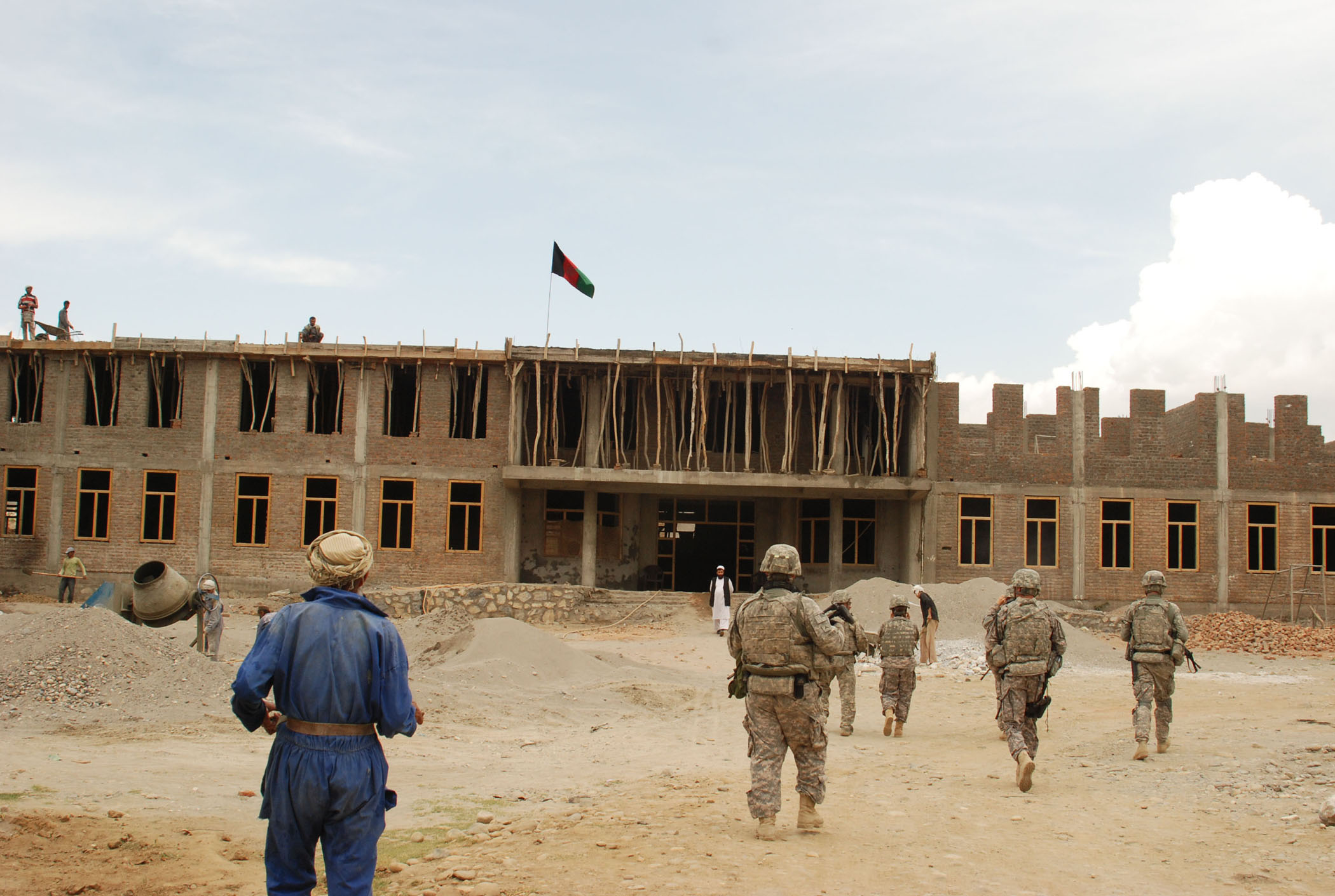 Members of the Kapisa Provincial Reconstruction Team inspect Masaab high school, a project under construction in Kapisa province, Sept. 16. PRTs assist Afghans in the construction of key infrastructure including, schools, roads, hospitals and clinics. (Photo ID: 205397)